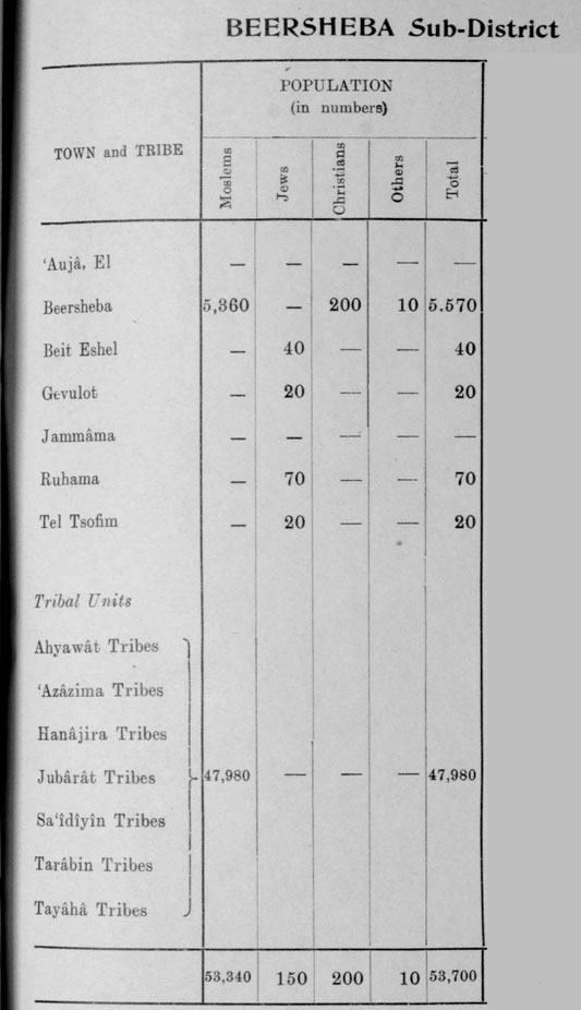 1945 Palestine Mandate Village Statistics